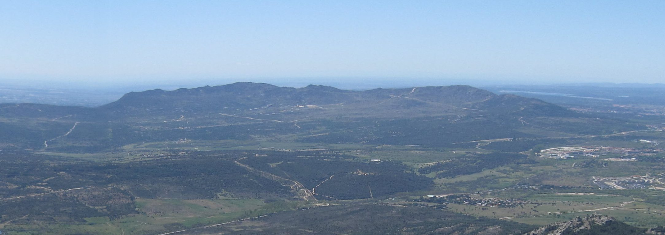 Hoyo de Manzanares mountain range seen from El Yelmo (Guadarrama mountain range, central Spain).